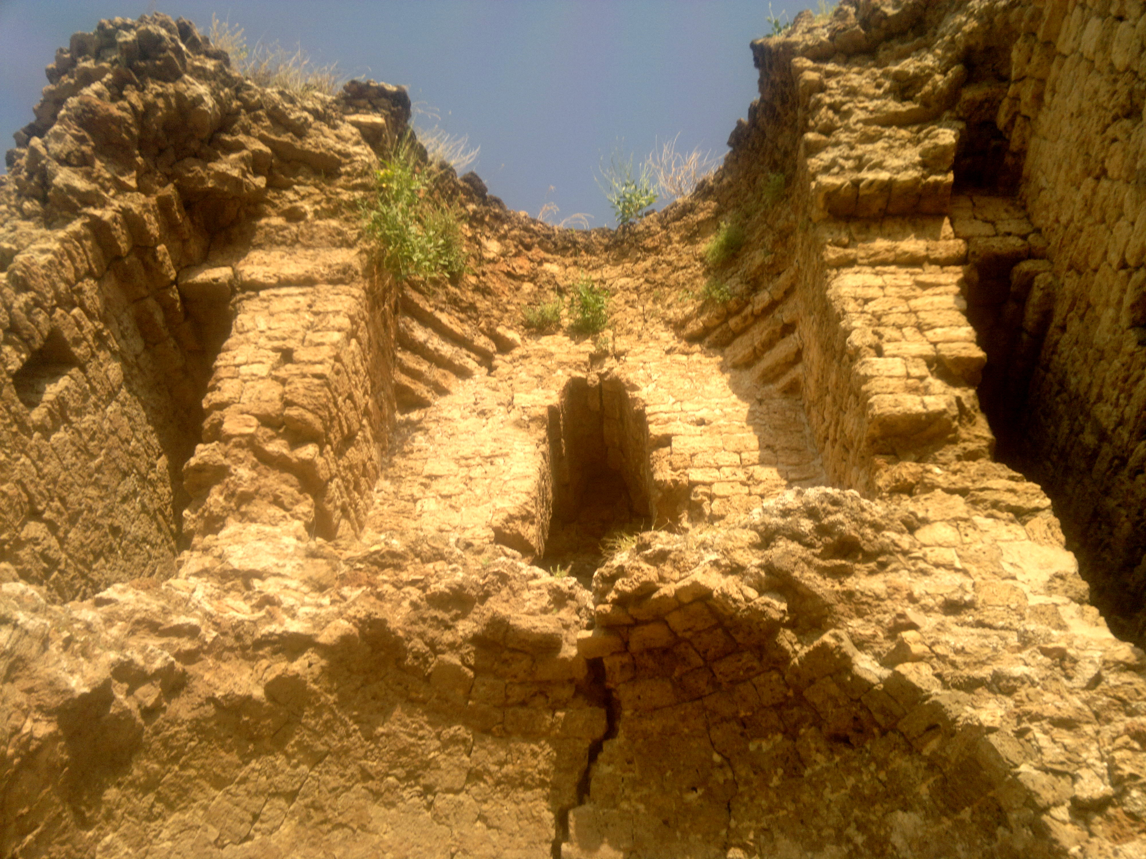 Two ancient temples This is a photo of a monument in Pakistan identified as the PB-34